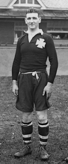 November 1928: Welsh rugby international Tom Arthur at Preston Park.